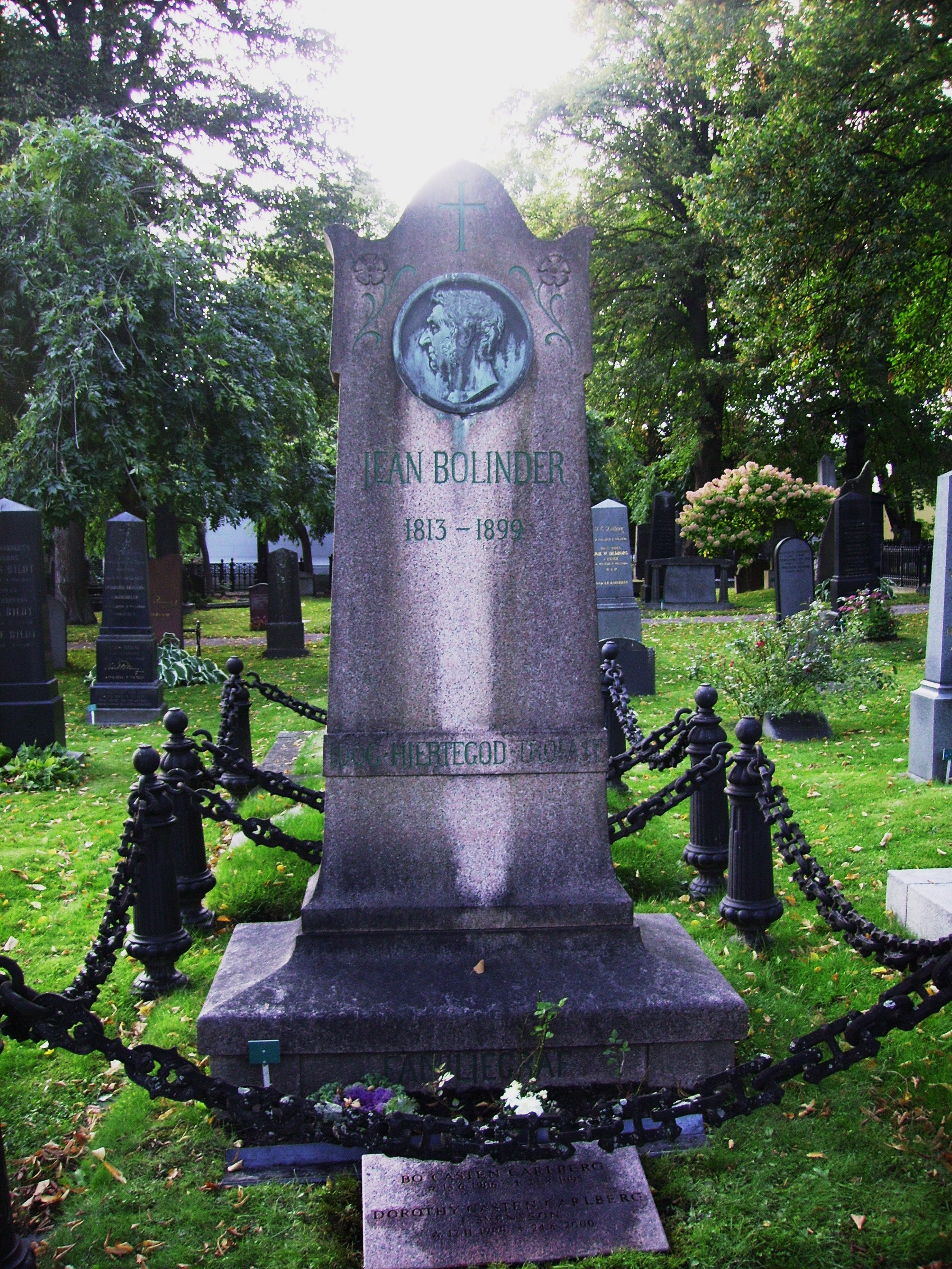 Picture of Jean Bolinder's grave at Solna kyrkogård